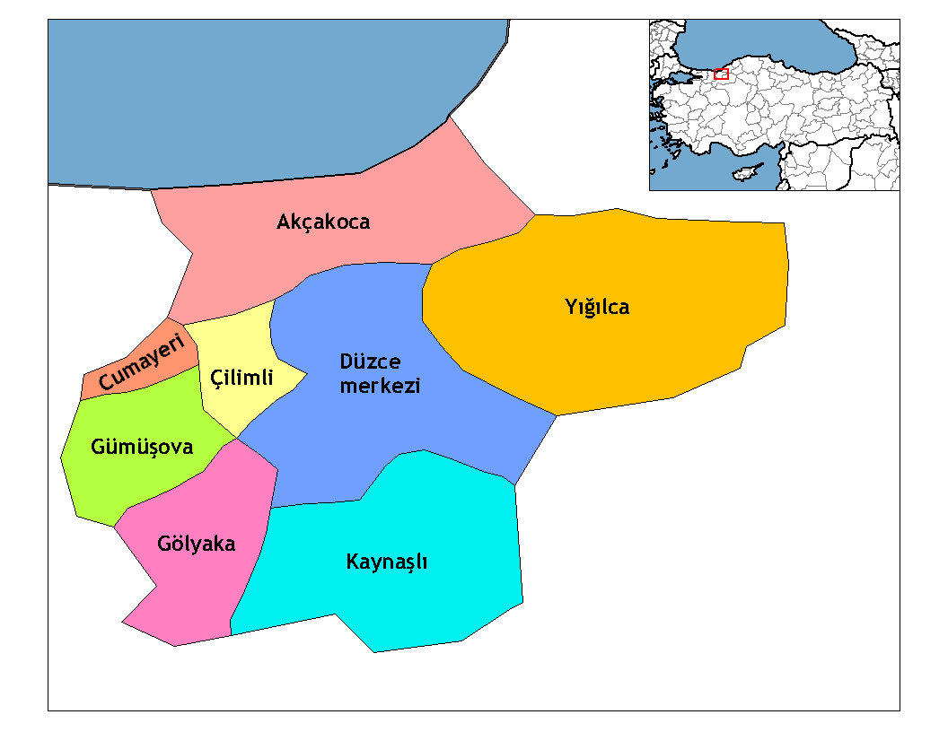 Map of the districts of Düzce province in Turkey. Created by Rarelibra 19:52, 1 December 2006 (UTC) for public domain use, using MapInfo Professional v8.5 and various mapping resources. Edited by One Homo Sapiens Corrected text where İ,Ş,ı,ğ,or ş occurs in name. Source: [statoids-com]. Increased font size and enhanced color differences among adjacent districts.